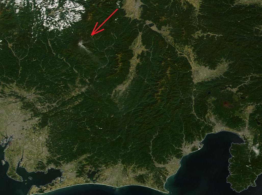 Satellite image of Mount Ontake in Japan on September 28 at local time. It erupted on the previous day(September 27, 2014). (2014 Mount Ontake eruption).